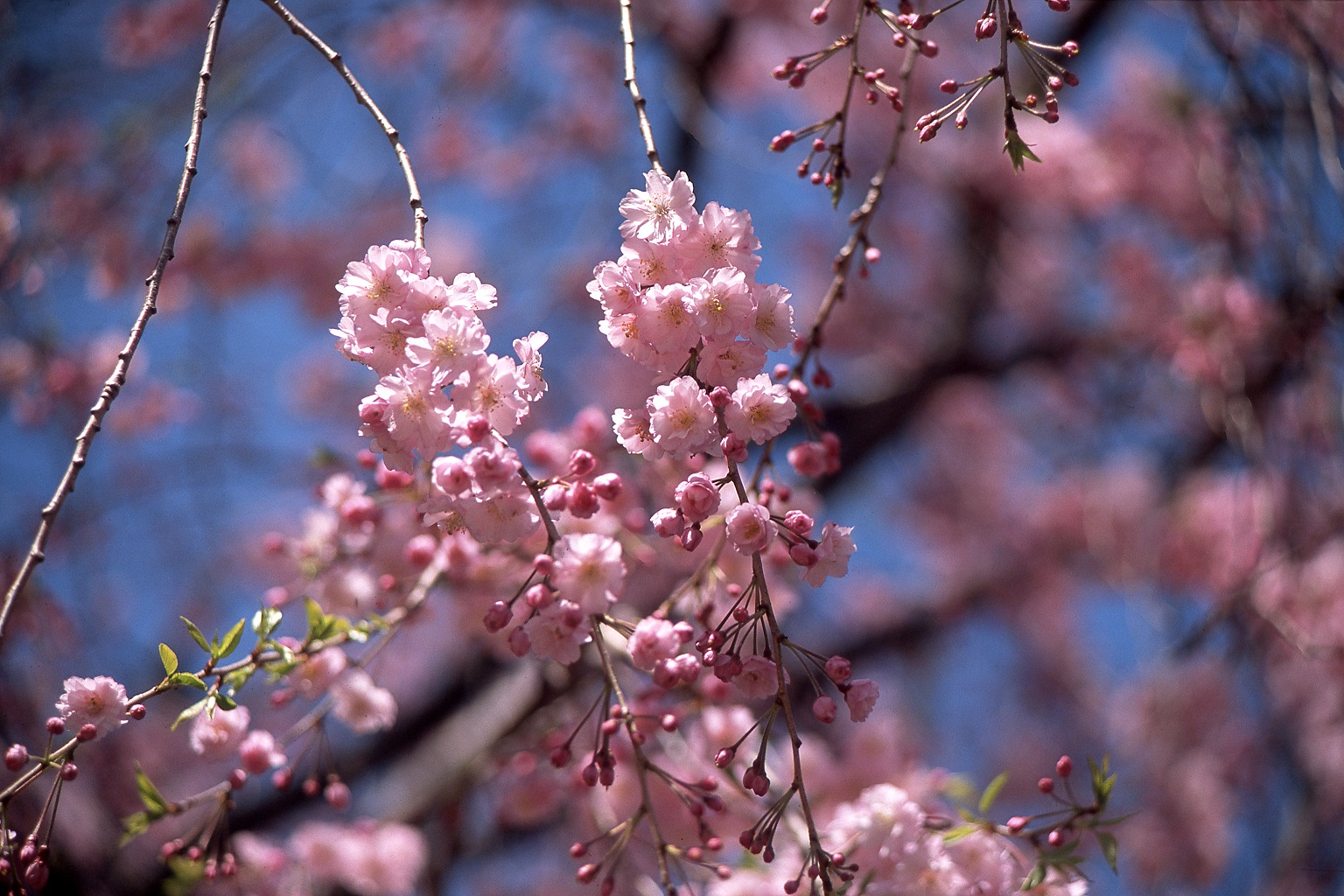 Sakura taken in Tokyo in March 2015